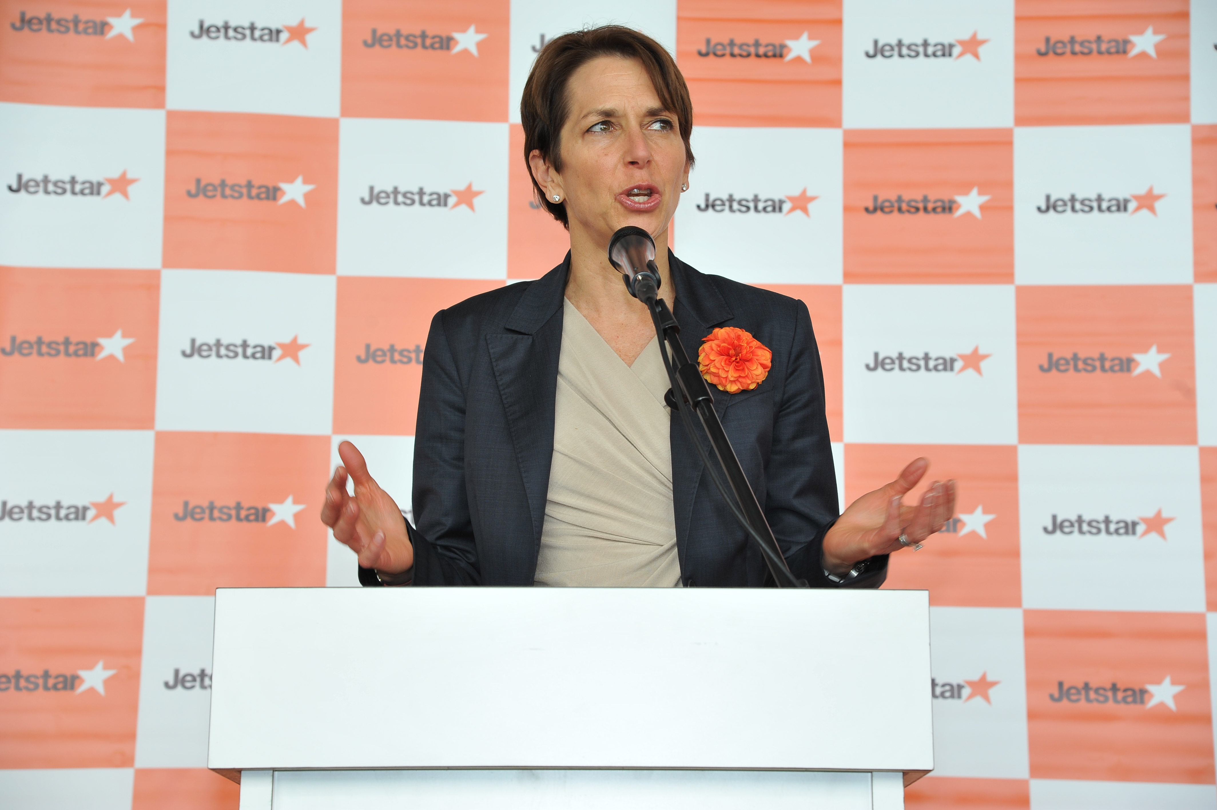 Jetstar Group CEO Jayne Hrdlicka at the operational launch of Jetstar Japan at Narita Airport. Jetstar Japan's first flight (GK111), an Airbus A320 service with 180 passengers, departed Tokyo’s Narita Airport for the regional centre of Sapporo this morning.